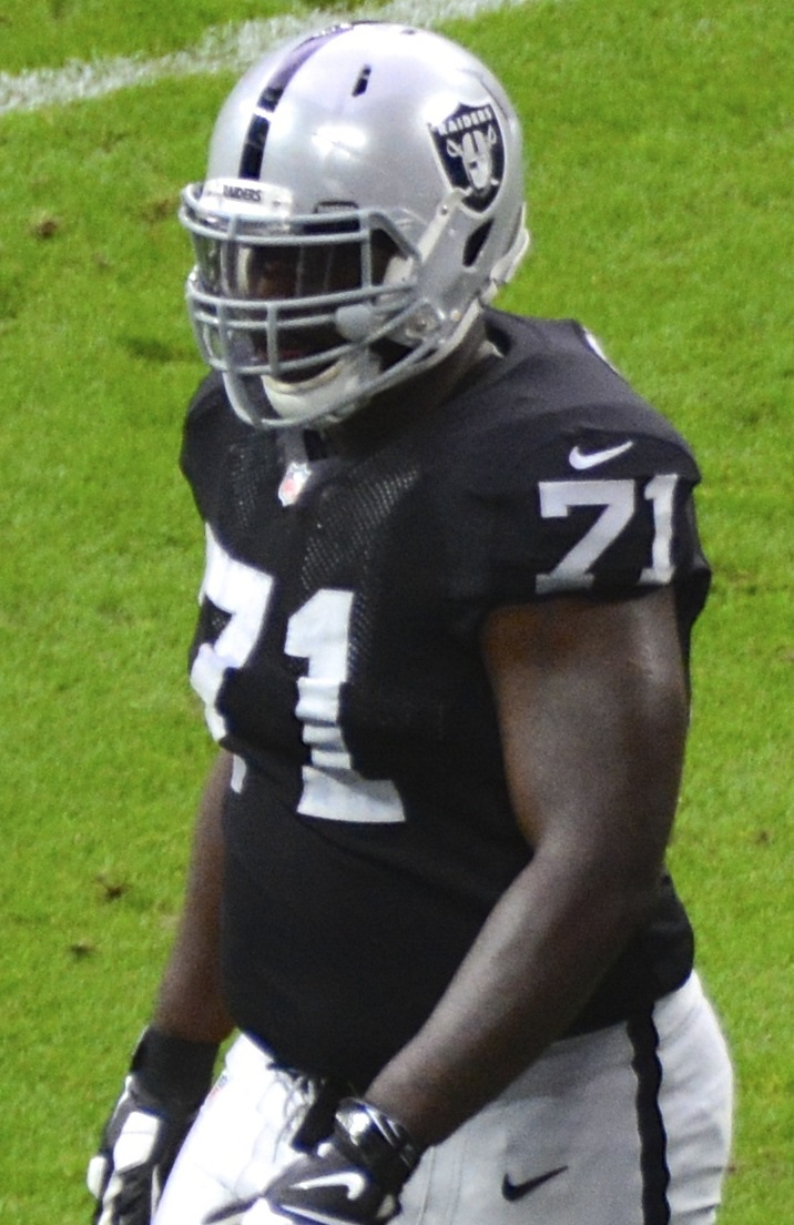 Raiders vs Dolphins - Wembley Sep 2014